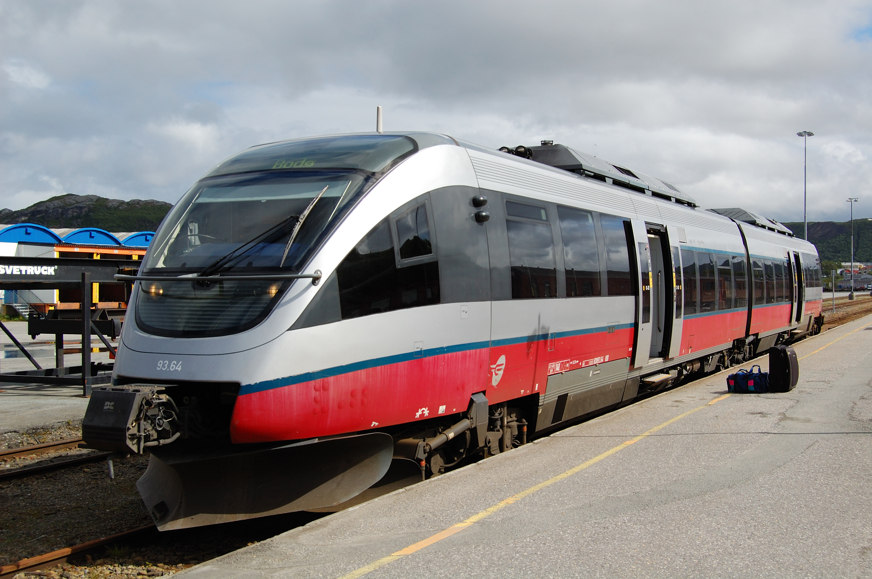 NSB Class 93, two-carriage diesel multiple unit used by Norges Statsbaner. Photo taken in Bodø.